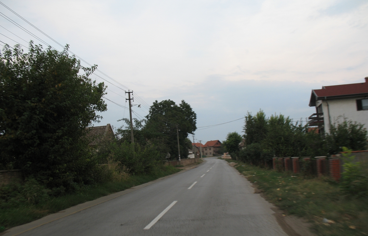 Klenovnik in Požarevac municipality, Serbia.